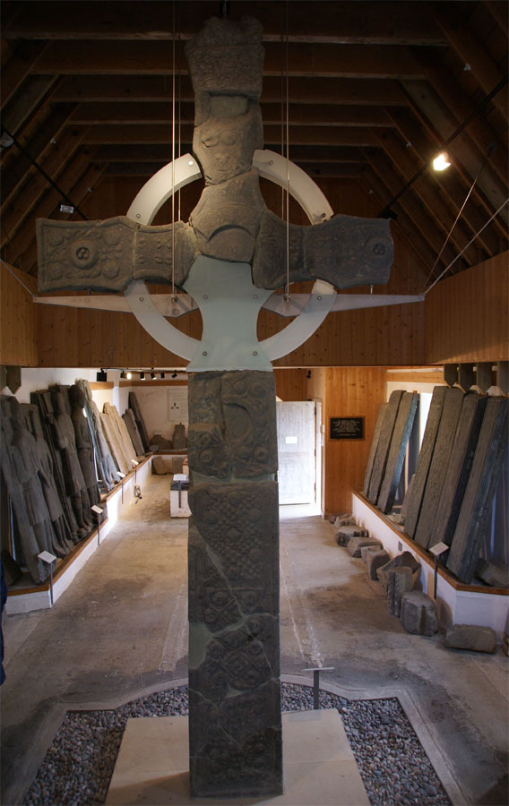 Iona Abbey - Island of Iona, Scotland - St John's Cross